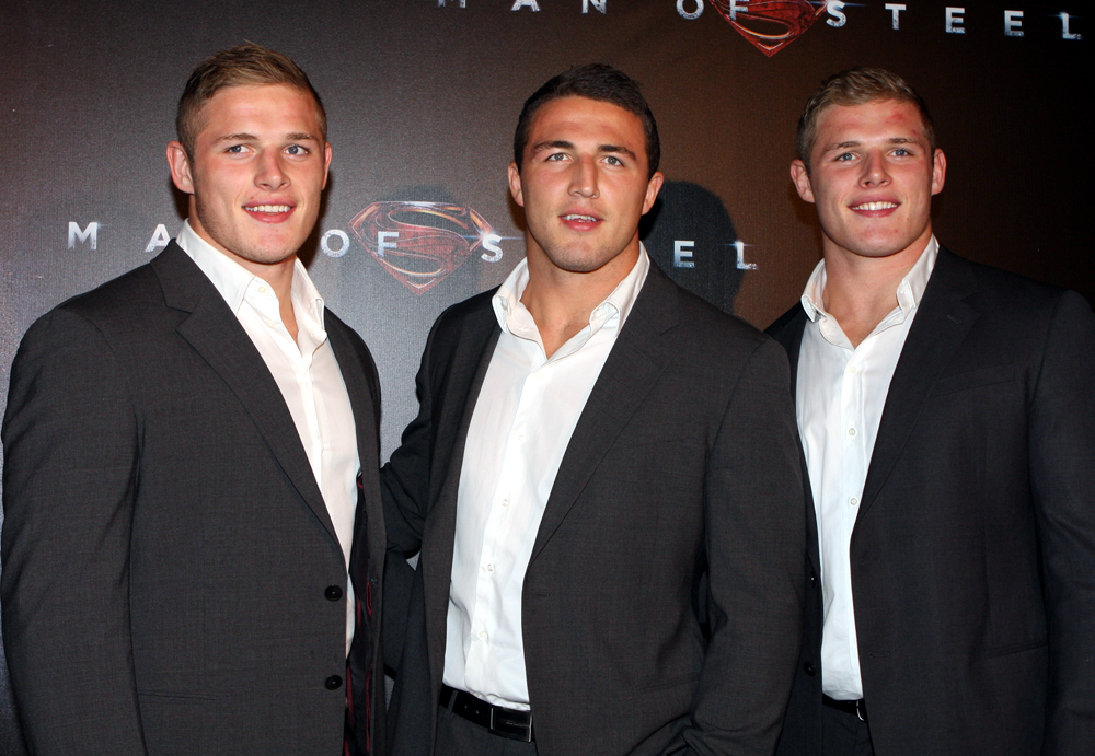 left to right: George Burgess (rugby league), Sam Burgess and Tom Burgess (rugby league) at Man Of Steel red carpet movie premiere, Sydney